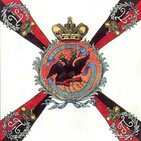 Standard of the Taurica 6th Grenadier Regiment